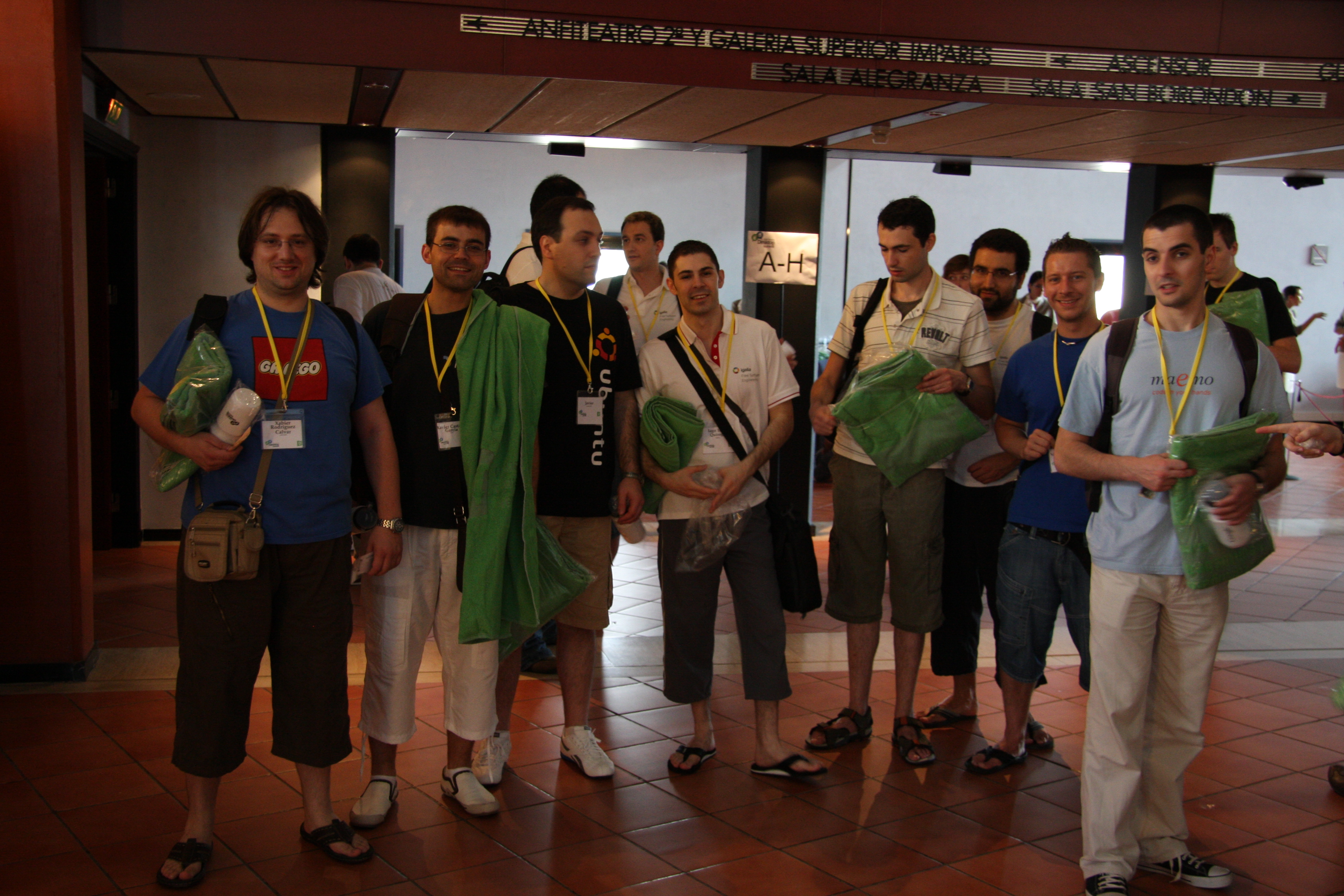 Staff of Igalia, S.L. at the Alfredo Kraus Auditorium on Gran Canaria Desktop Summit, July 2009